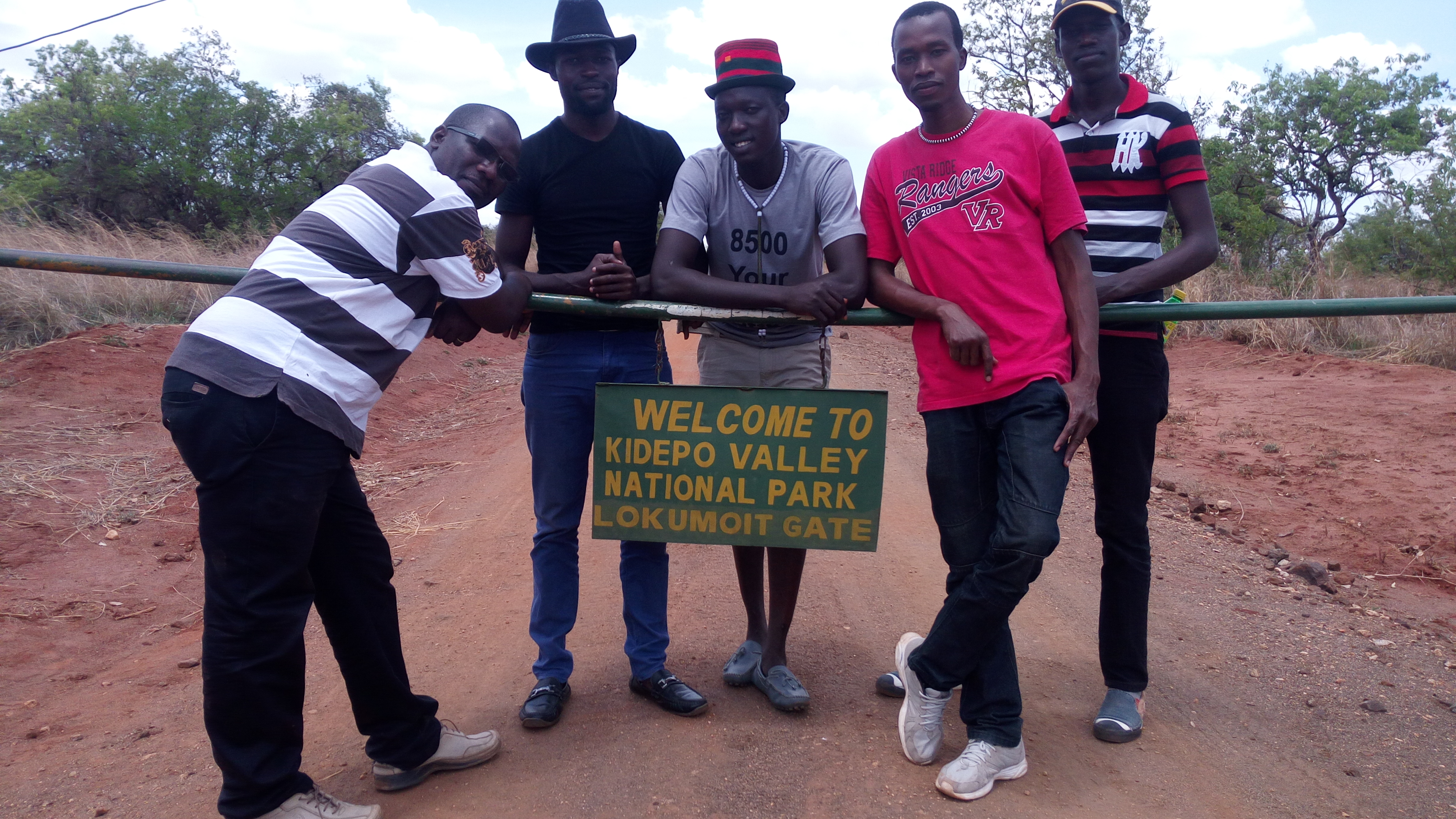 At Kidepo Valley National Park This is an image of "African people at work" from Uganda